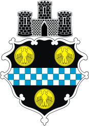 Coat of arms of the city of Pittsburgh, Pennsylvania On a field Sable, a fess chequay Argent et Azure, between three bezants bearing eagles rising with wings displayed and inverted Or. For crest, Sable a triple-towered castle masoned Argent.